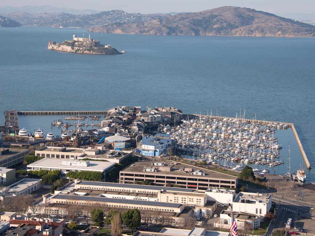 View from coit tower to pier 39 and Alcatraz island.